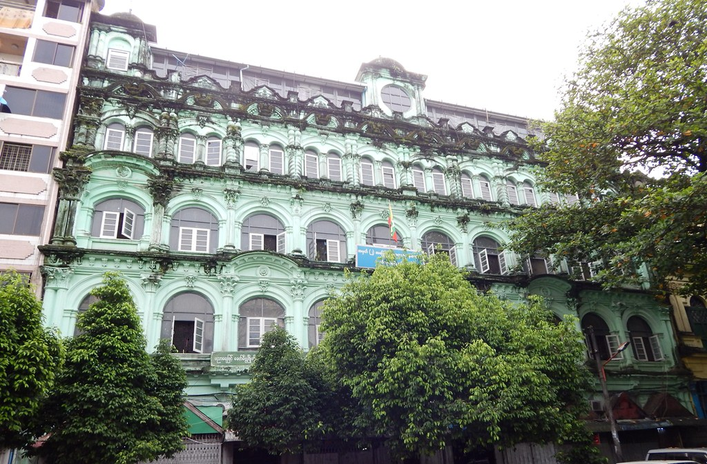 Basic Education High School No. 2 Pabedan, Yangon, Burma